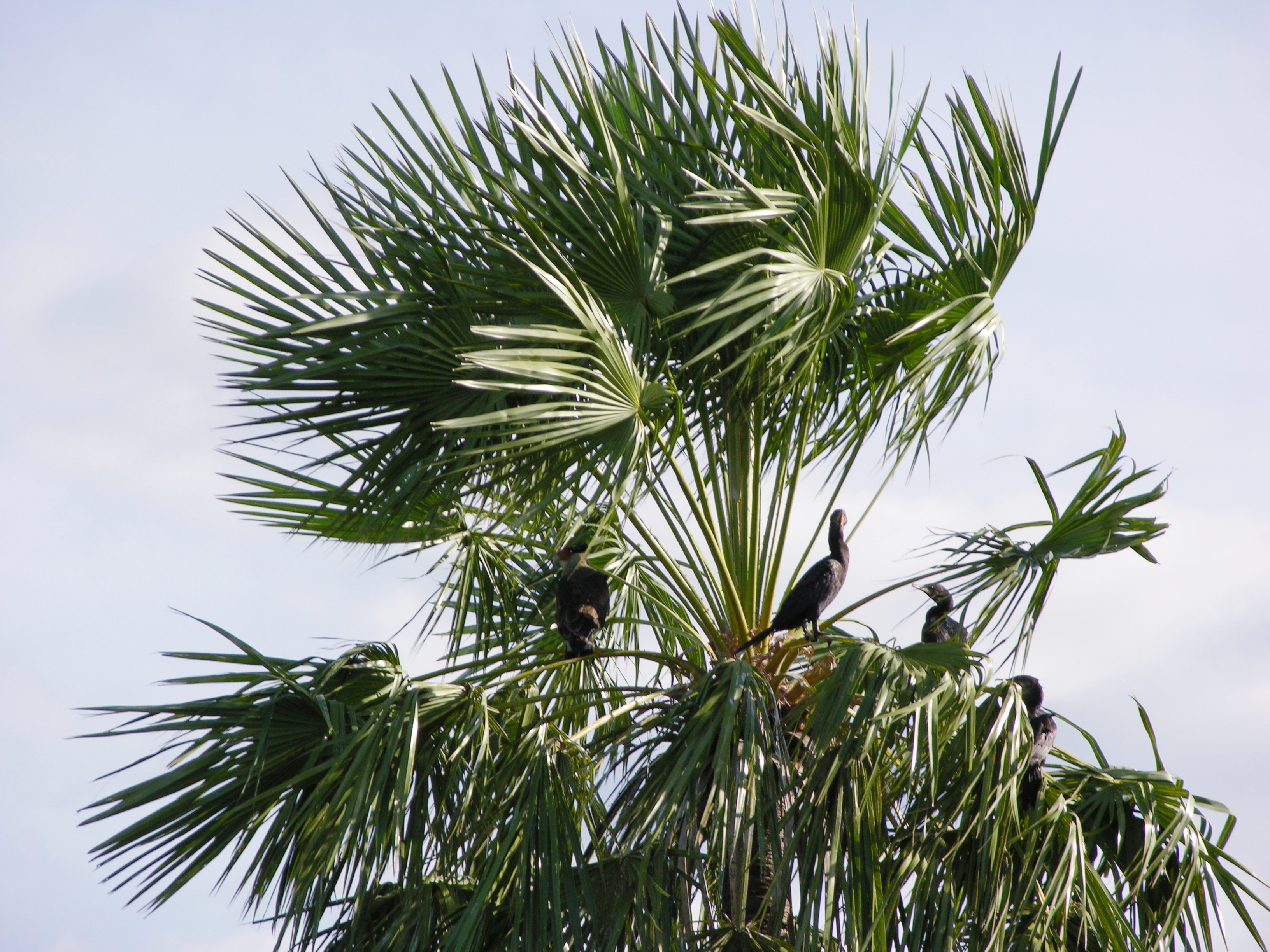 Neotropical Cormorants and a Southern Caracara in a Copernicia alba tree